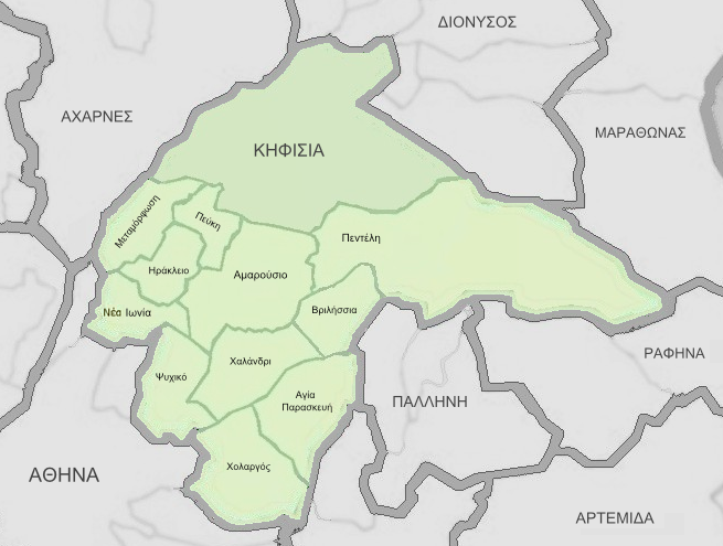 voreios tomeas